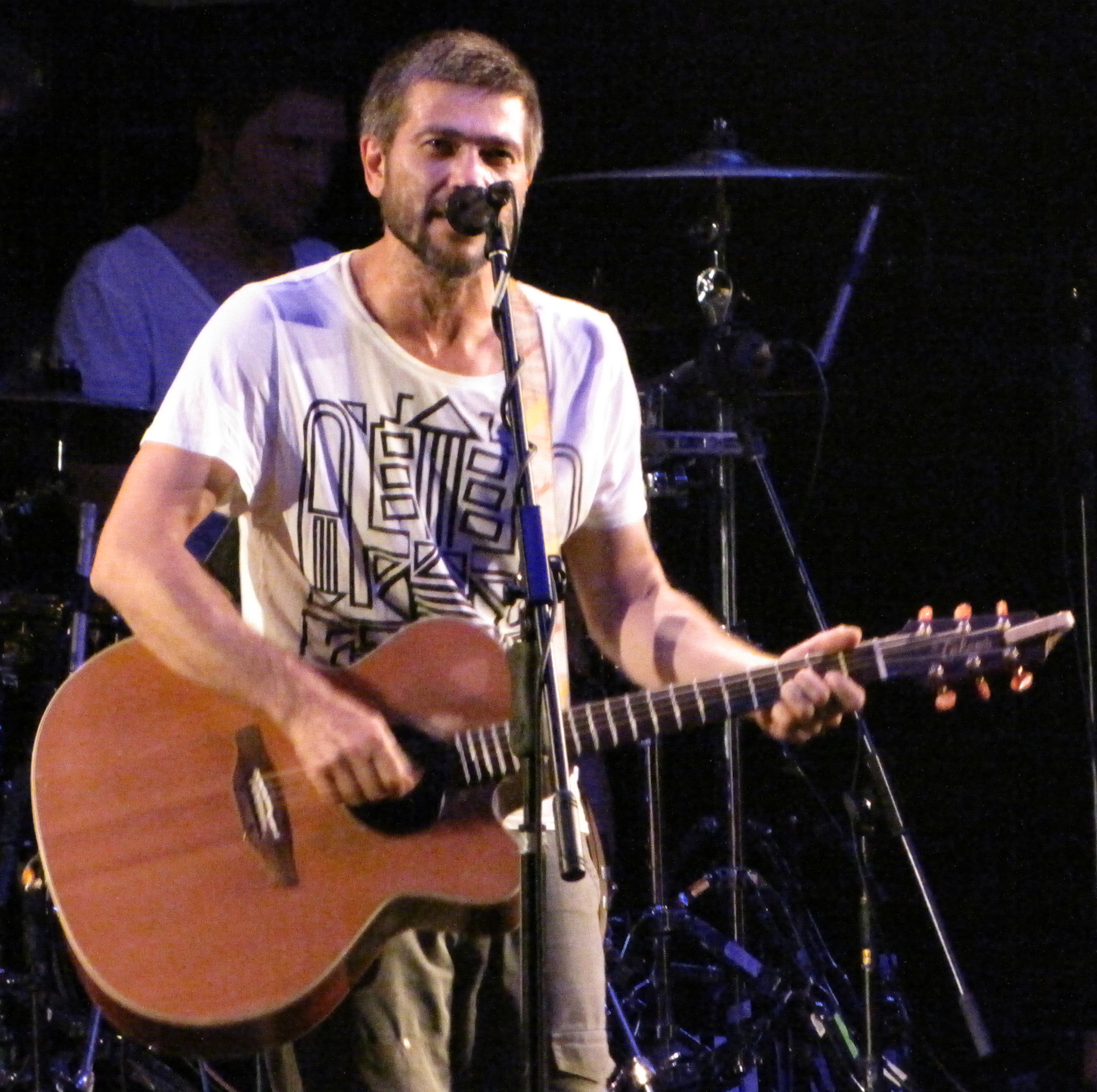 Aleksandr Vasilyev/Александр Васильев at a concert with Splean/Сплин at B1 Maximum Klub in Moscow.